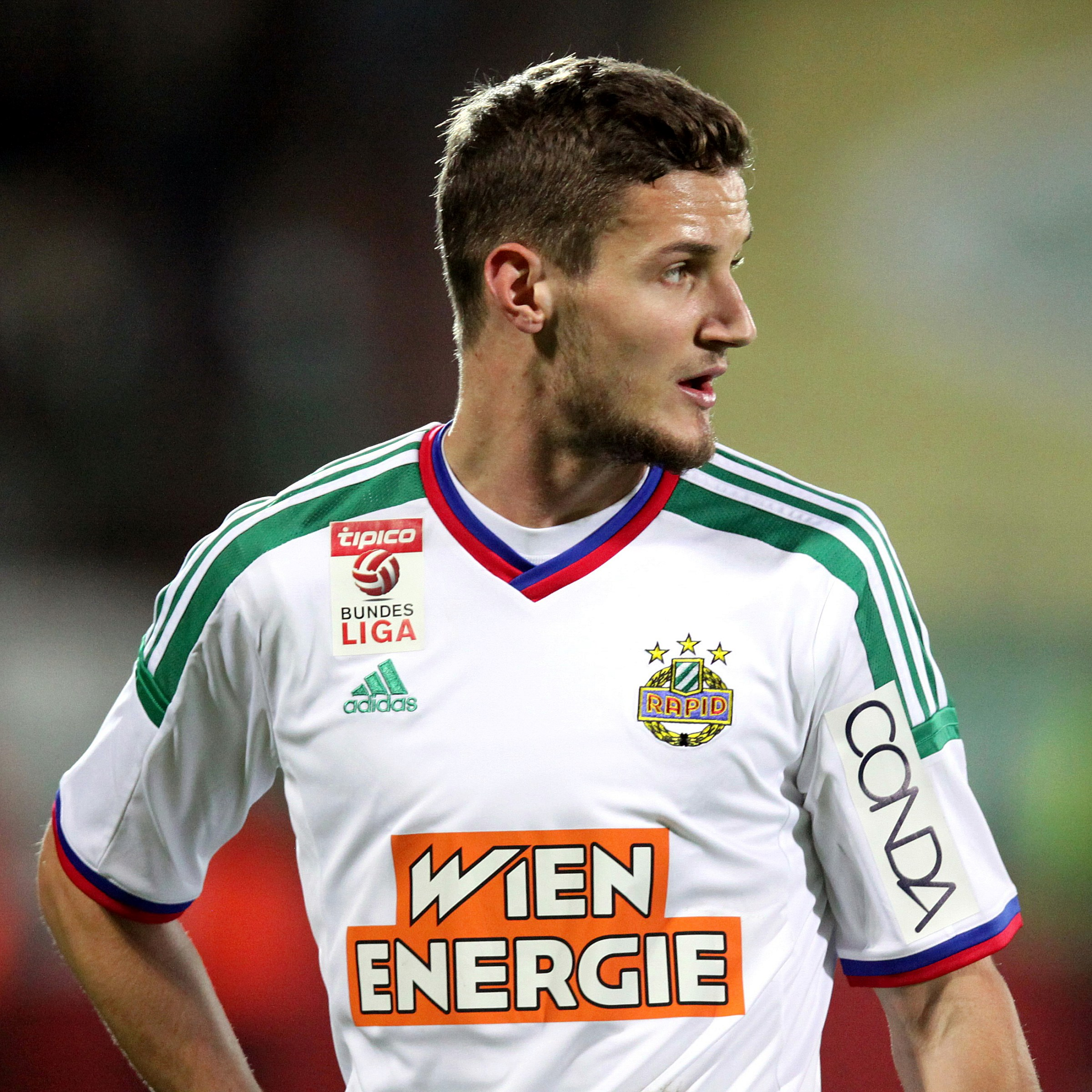 Match of the Austrian Football Bundesliga – FC Admira Wacker Mödling (red shirts) vs. SK Rapid Wien (white shirts) 2-1 (0-1) on 2015-12-02 in Bundesstadion Sudstadt – The photo shows Maximilian Hofmann.